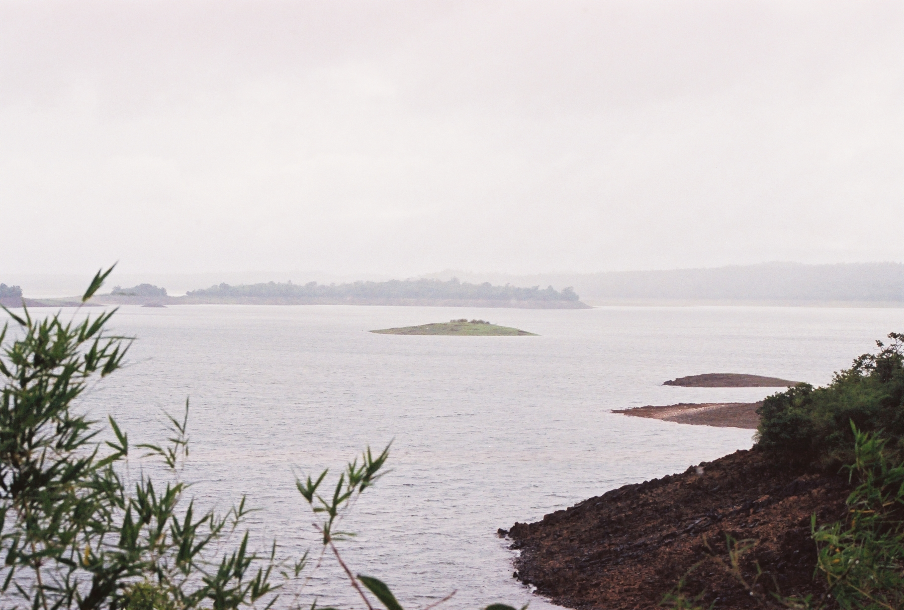 photograph taken by self (Dineshkannambadi) at Bhadra wildlife Sanctuary, Chikkamagaluru district, Karnataka state, India in June 2006